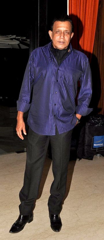 Mithun Chakraborty image